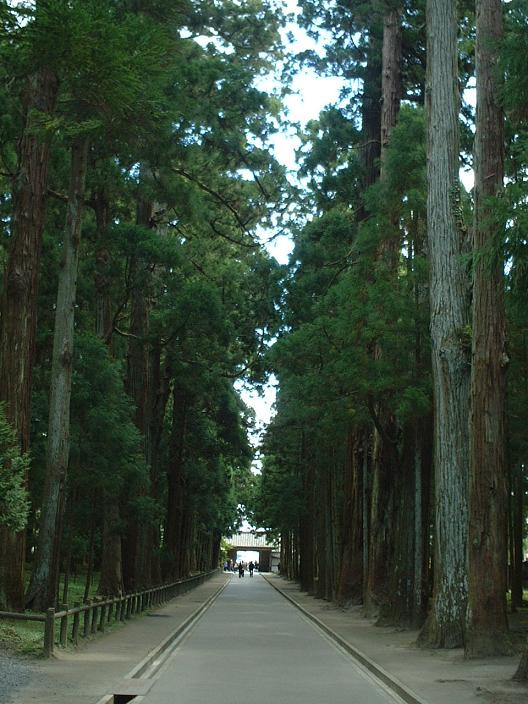 Cedar walk at Zuiganji